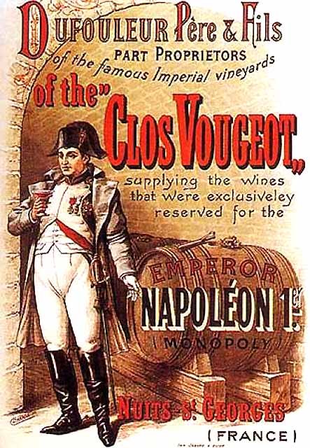 Poster Clos Vougeot 1920 cuvée Napoléon 1er